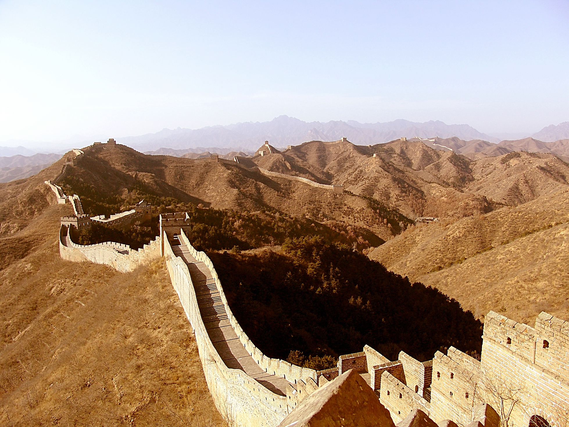 A section of the Great Wall of China between Simatai and Jinshanling